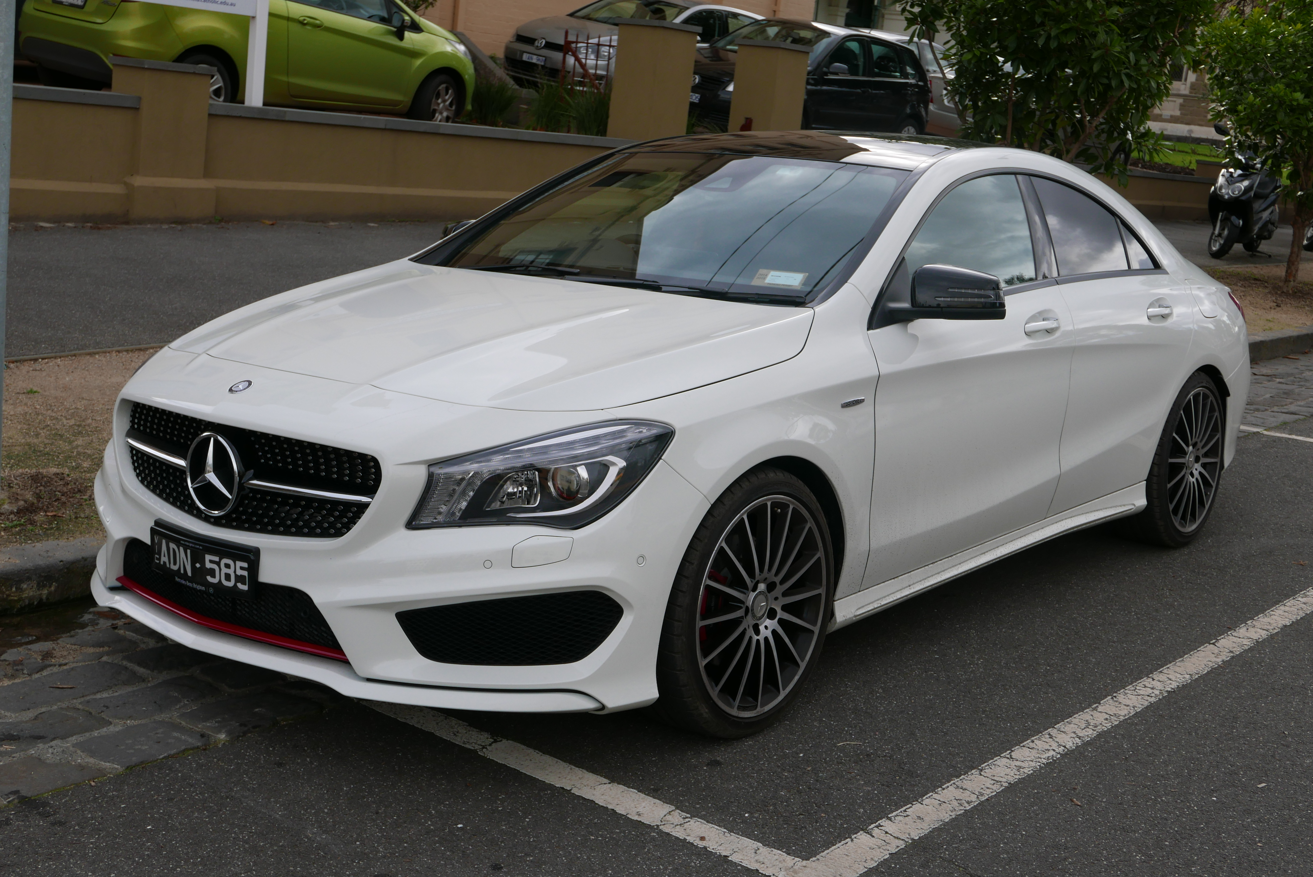 2014 Mercedes-Benz CLA 250 (C 117) Sport 4MATIC sedan. Despite the date discrepancy with the vehicle registration information below, a check of the VIN reveals a "delivery date" of 25 November 2014. Photographed in West Melbourne, Victoria, Australia. Vehicle registration enquiry results Jurisdiction Victoria Registration ADN585 Chassis code WDD1173462N169998 Engine code 27092030563313 Compliance date 2015-01 Year of manufacture 2015